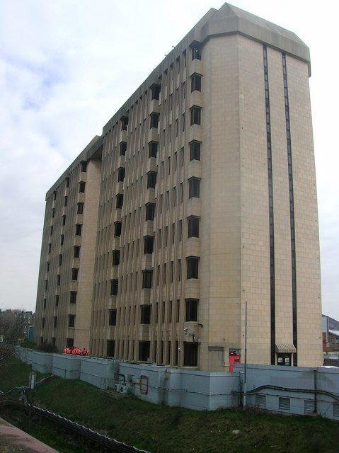 Ashfield House from West Cromwell Road W14